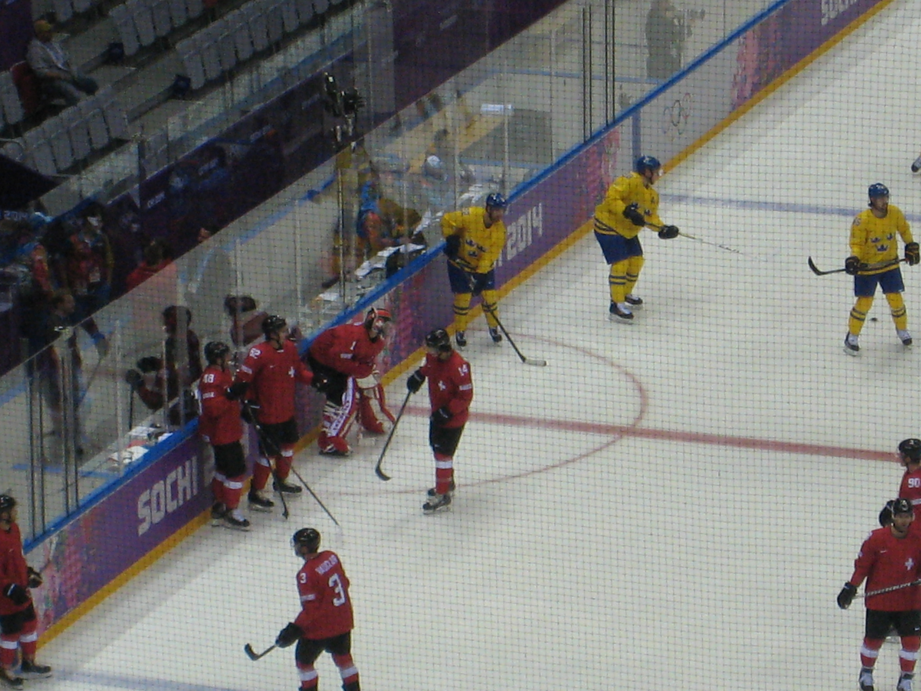 Ice Hockey at the 2014 Winter Olympics in Sochi. Men's Prelim. Round - Group C - Sweden vs. Switzerland.